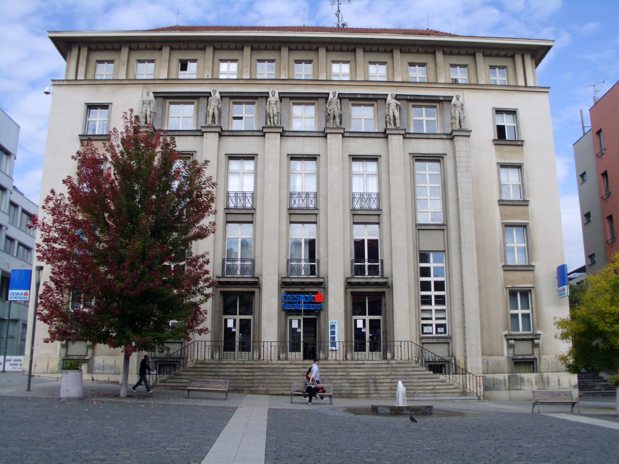 Ústí nad Labem